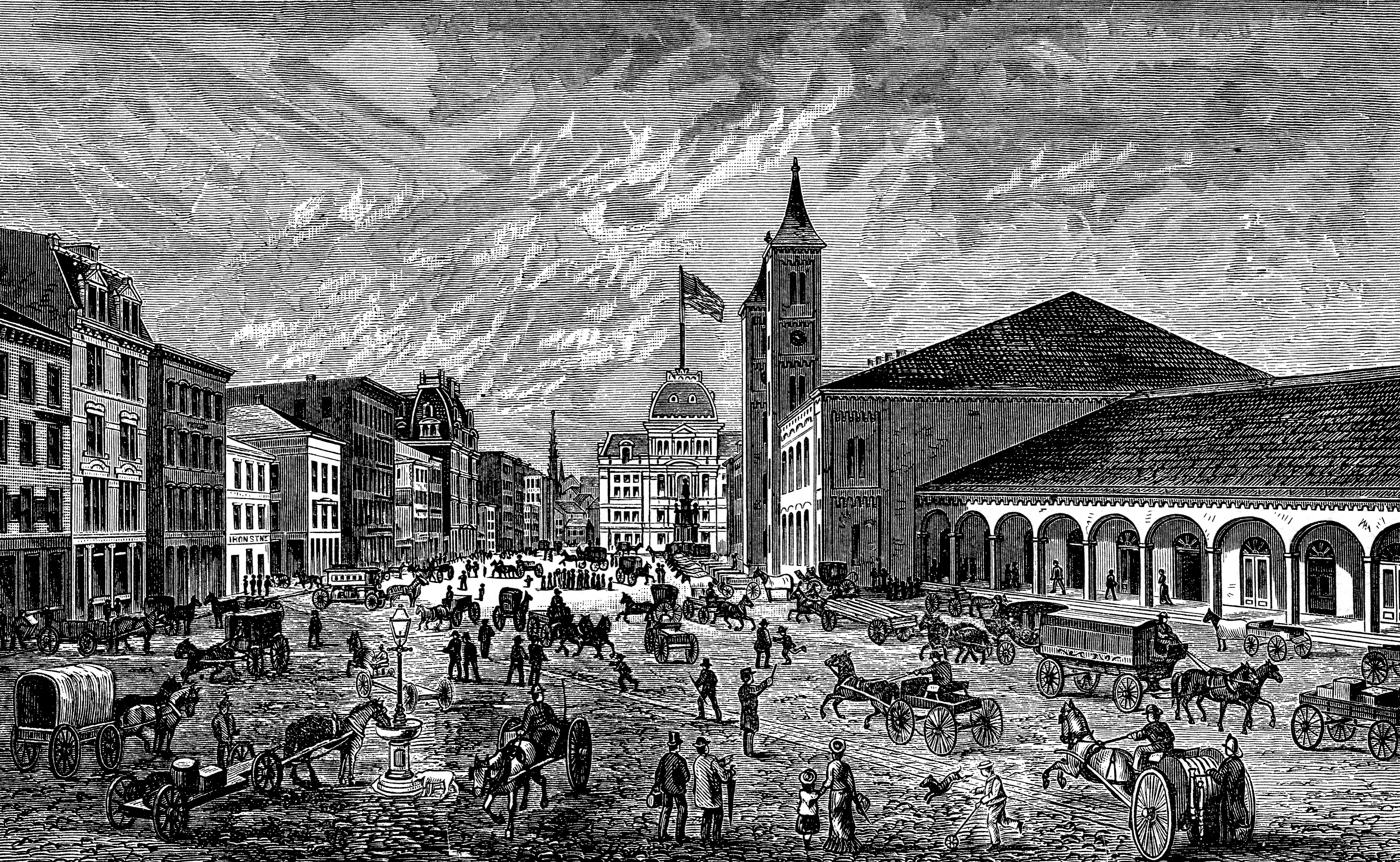 Exchange Place, and the Union Depot. Engraving from The Providence Plantations for 250 Years, Welcome Arnold Greene (1886). page 129.